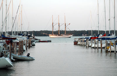 Östra hamnen - The Eastern Port of Mariehamn, the sailing ship Linden in the centre. Photograph by Henryk Kotowski